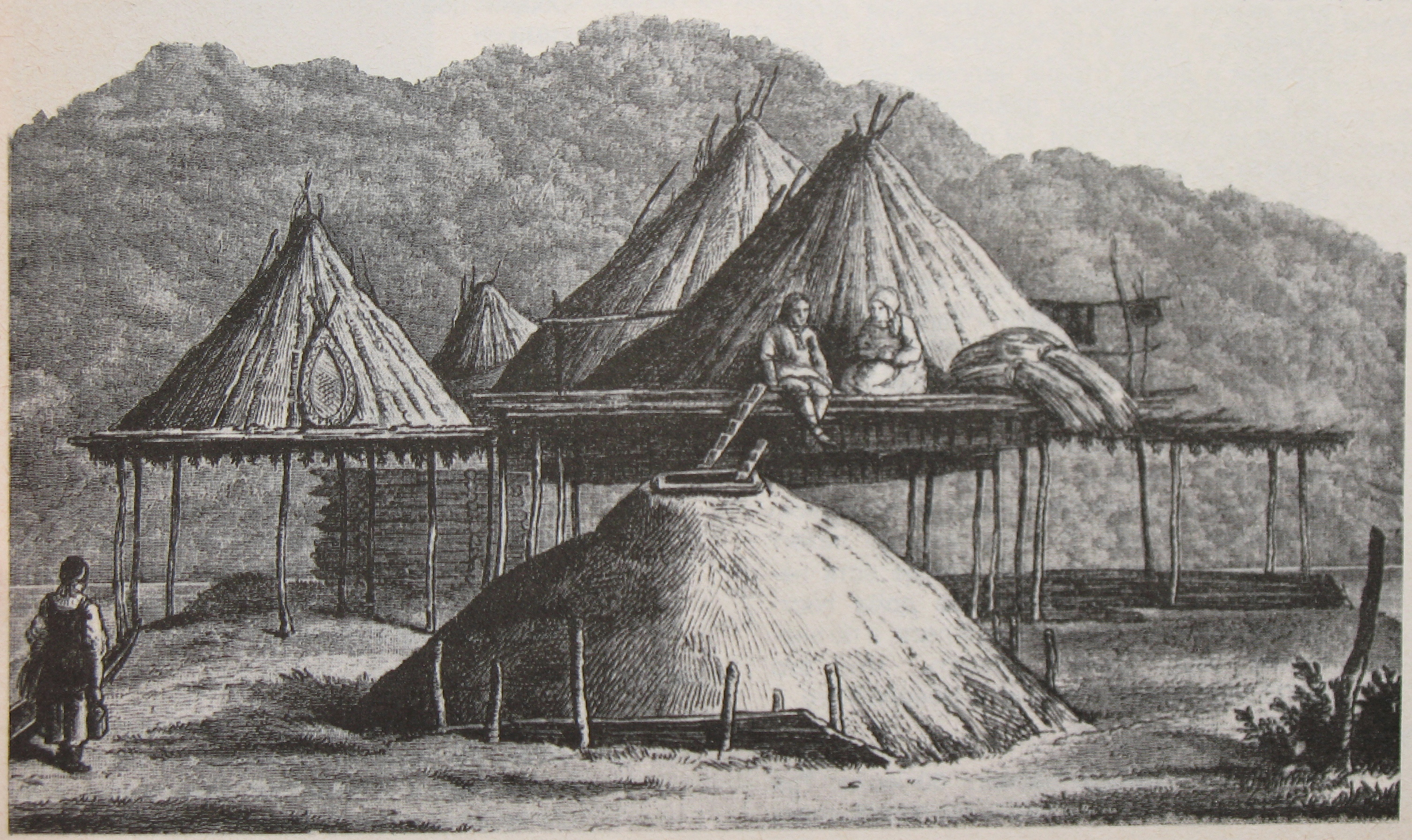 Kamchadals houses in Kamchatka. "Хижины камчадалов" на Камчатке. Гравюра 18 века.